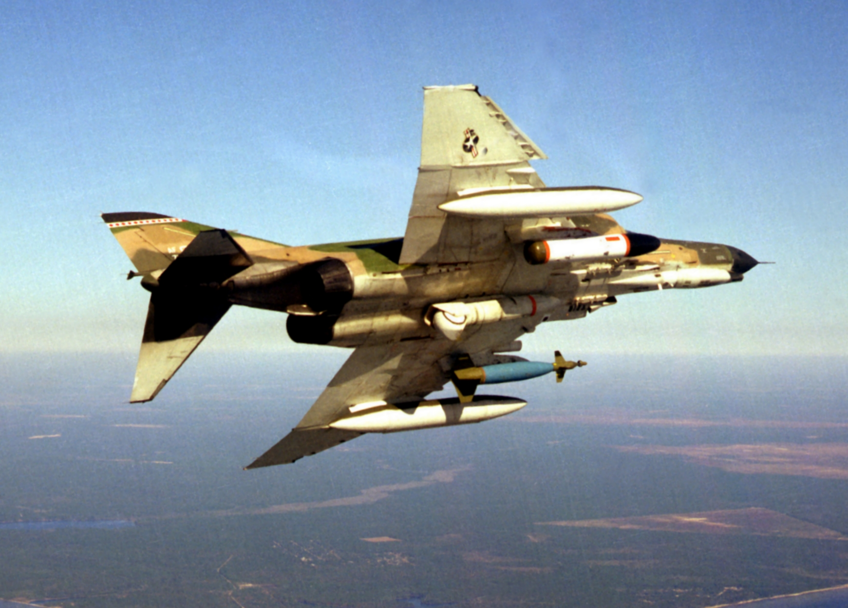 A U.S. Air Force Air Systems Command McDonnell Douglas F-4E-49-MC Phantom II aircraft (s/n 71-1070) equipped with an underwing fuel tank, a telemetry pod, a Pave Tack laser targeting pod, a GBU-10 laser guided bomb and another underwing tank, in flight near Eglin Air Force Base, Florida (USA), on 9 December 1976.